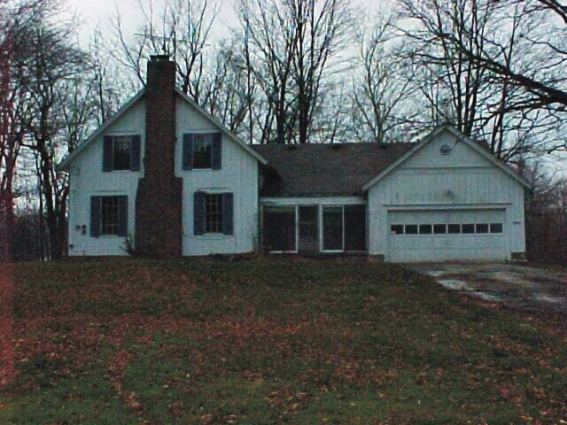 Allen Welton House, Cuyahoga Valley National Park, Ohio, USA